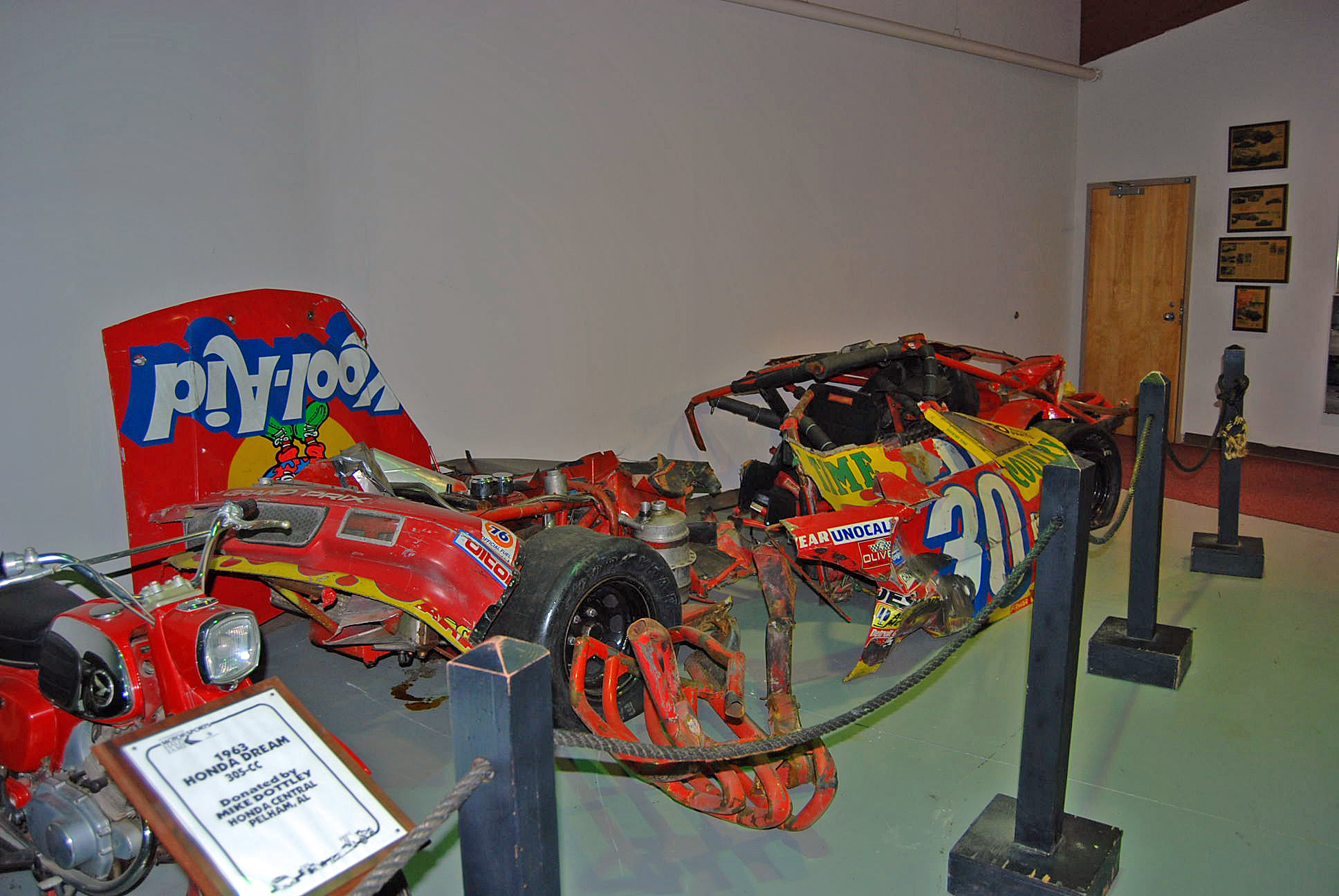 The ruined remains of Michael Waltrip's race car from 1990 at Bristol Jason Trew Photo